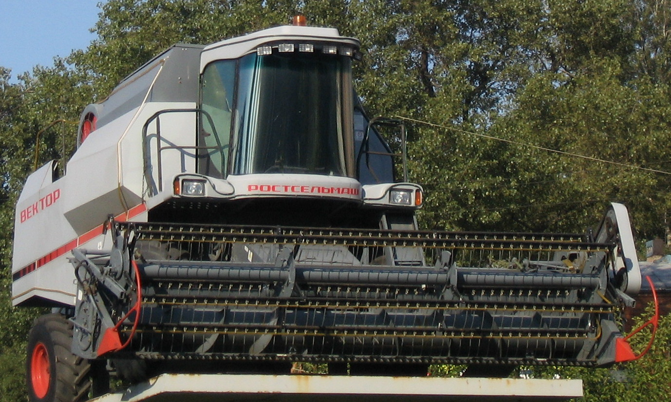 Rostselmash Vector combine monument in Rostov-on-Don